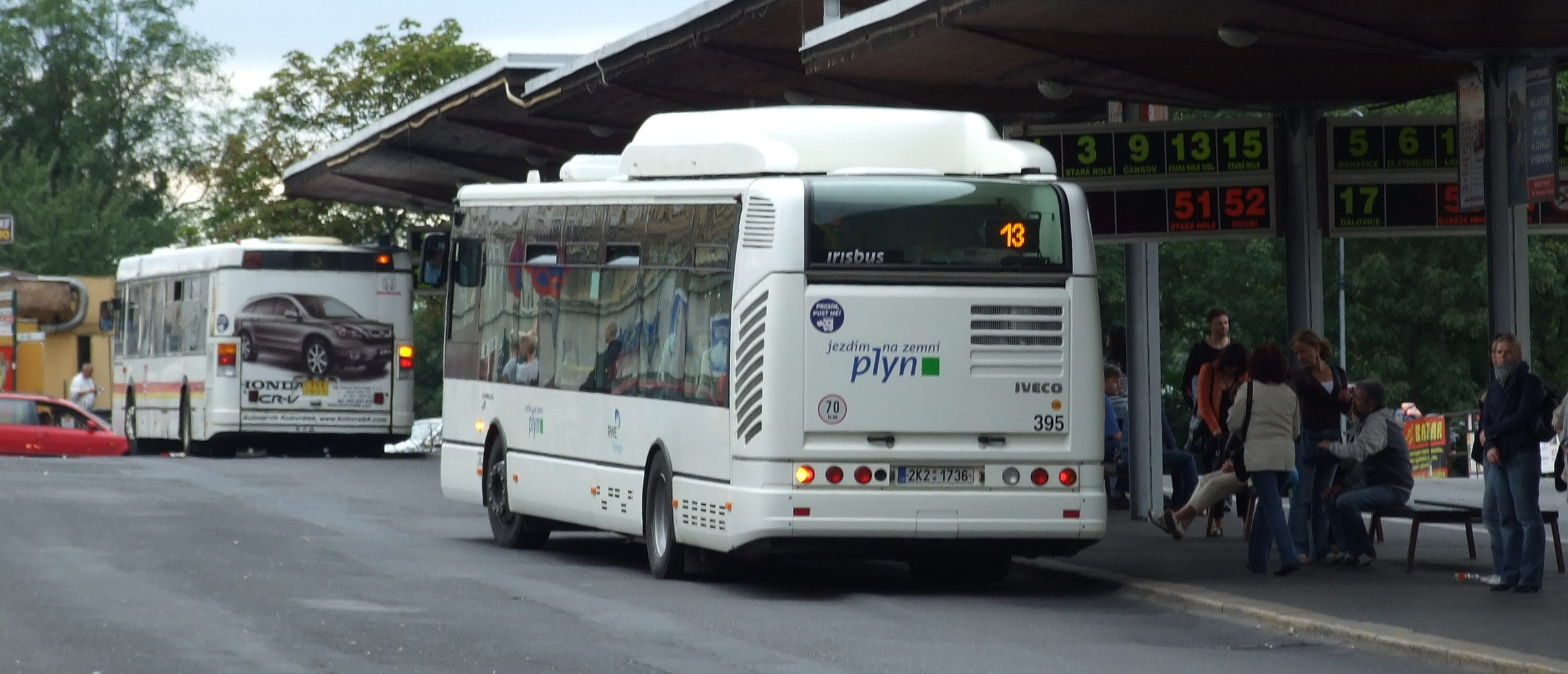 One of city transport buses in Karlovy Varyhelp